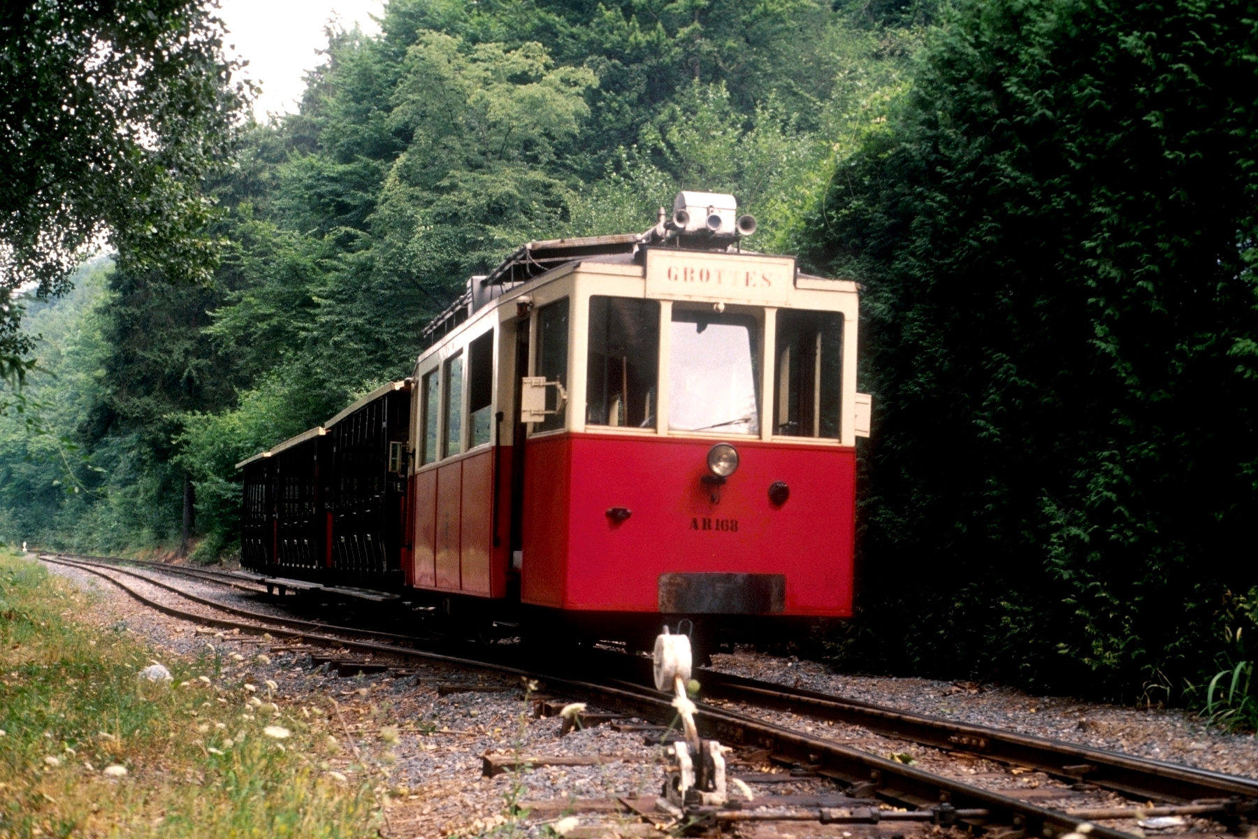 Keywords : Tec, SNCV, Société Anonyme pour l'Exploitation du Chemin de Fer Vicinal des Grottes de Han-sur-Lesse, vicinal railways, rail, metre gauge, tram, train, touristic railway, Han-sur-Lesse, Belgium